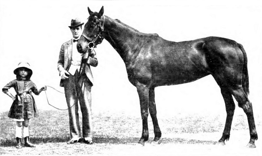 Canyon, winner of the 1916 1000 Guineas, with her trainer George Lambton and his daughter Nancy.